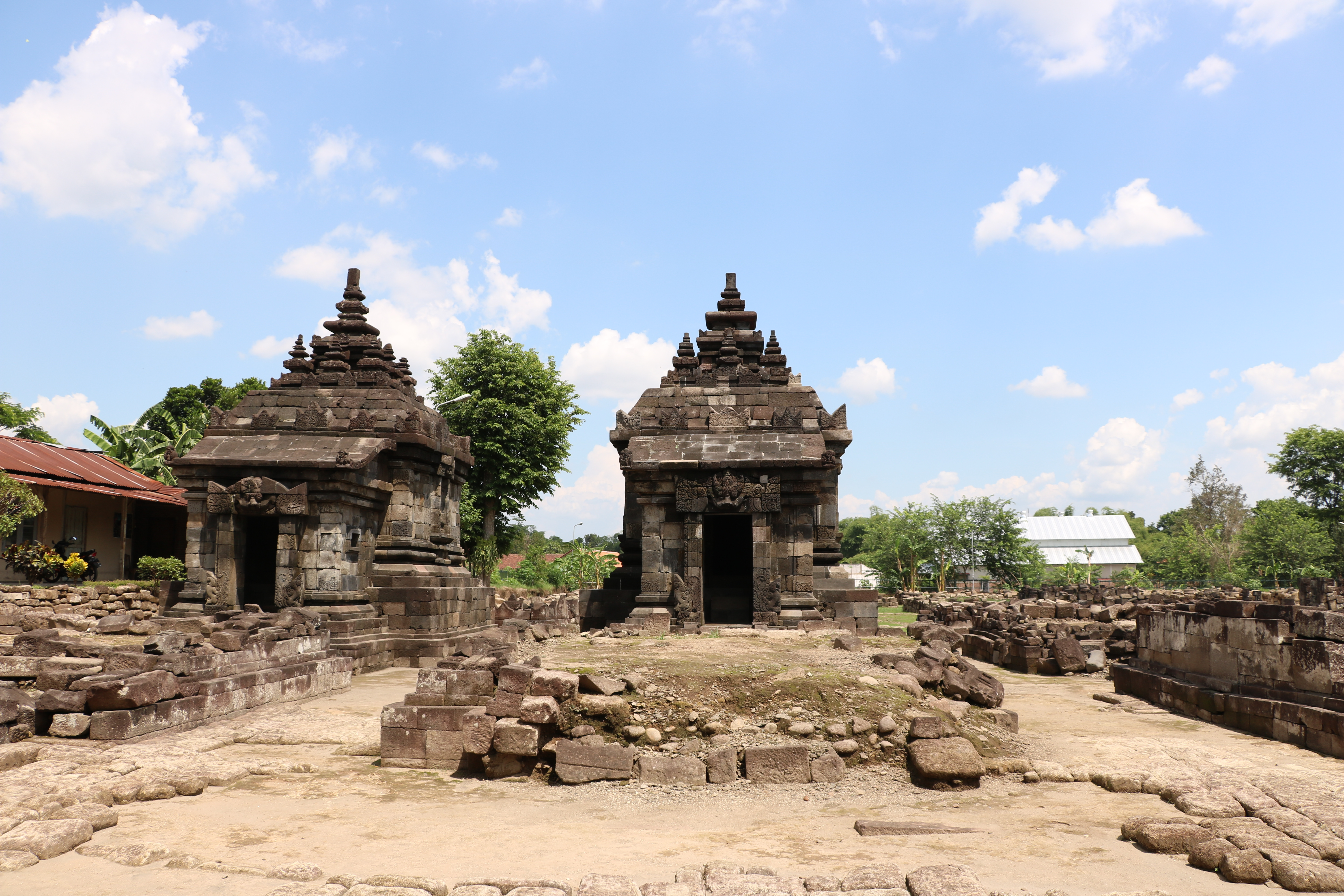 South Plaosan Temple is the Classic temple from Klaten Central Java Indonesia